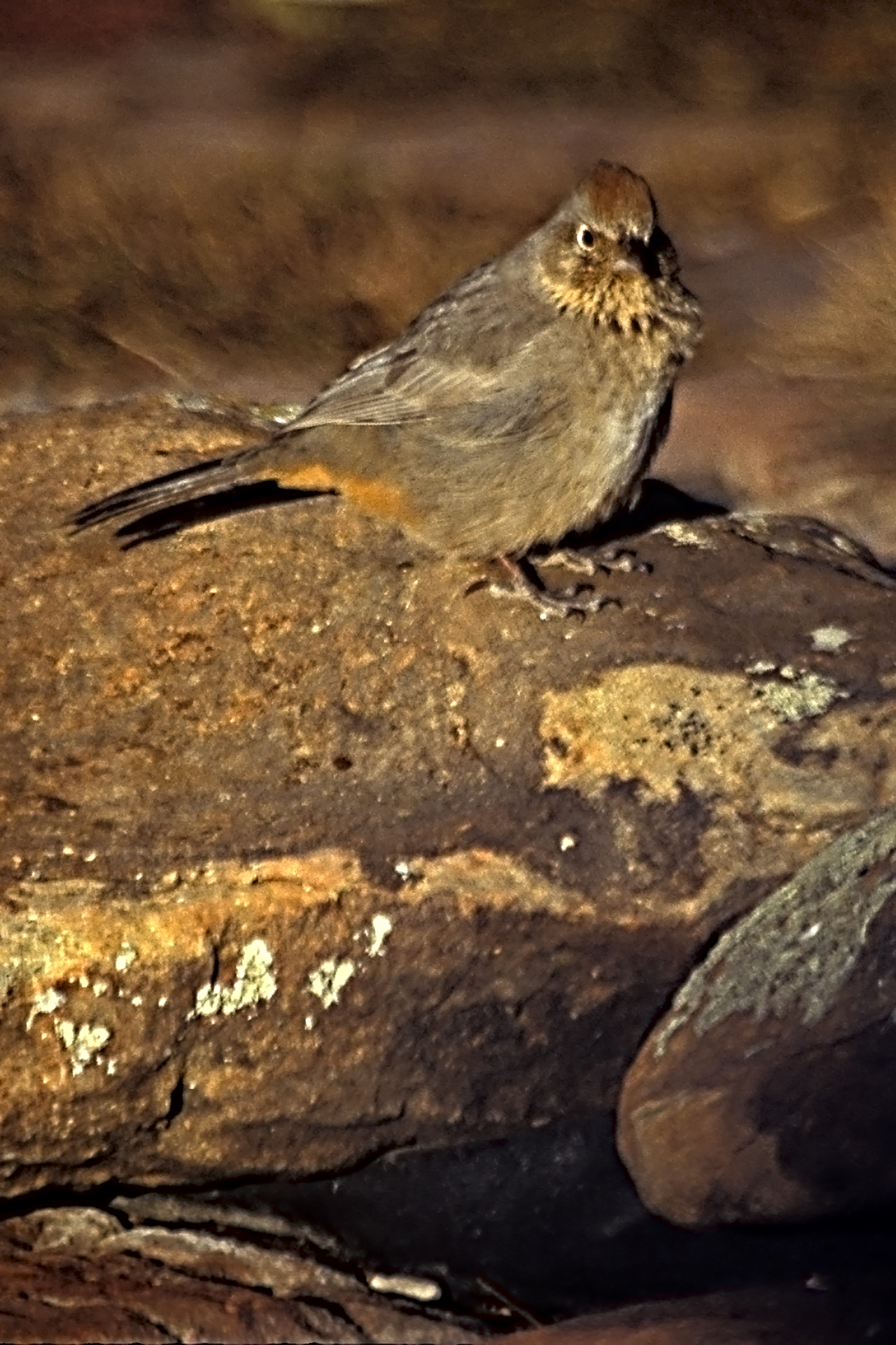 The Canyon Towhee gets its name from hopping forward and backward on its toes to get to food in the ground. New Mexico.